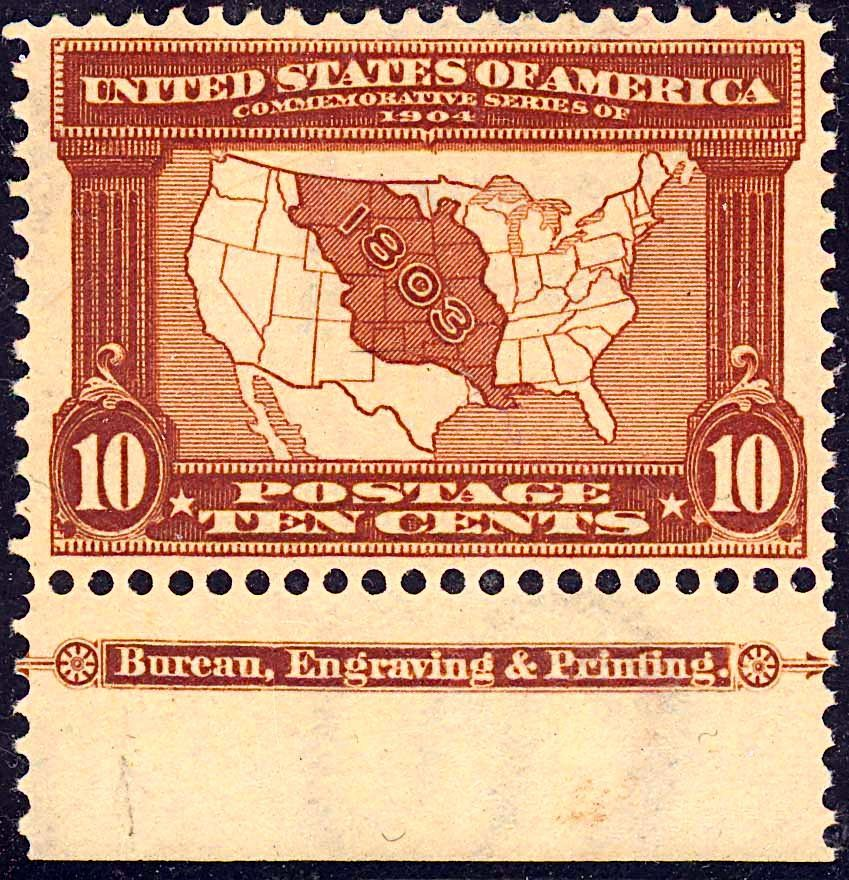 Louisiana_Purchase7_1903_Issue-10c.jpg